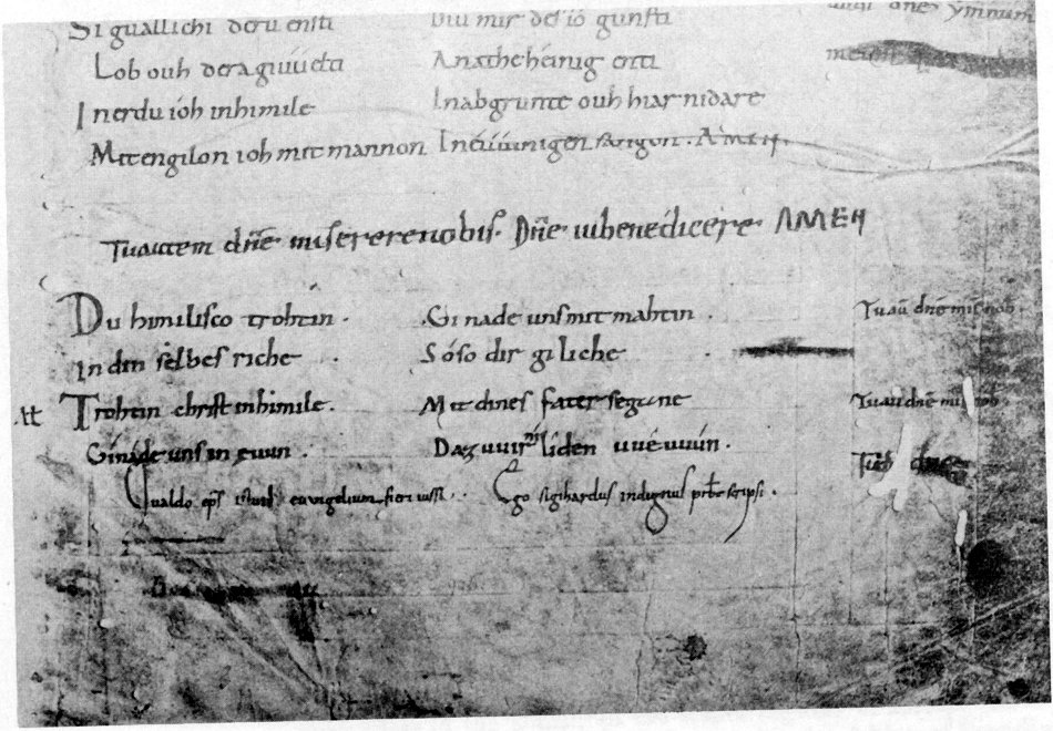 Sigihards Gebete, an Old Bavarian text from the early 10th century, written by a presbyter Sigihard for Waldo, bishop of Freising